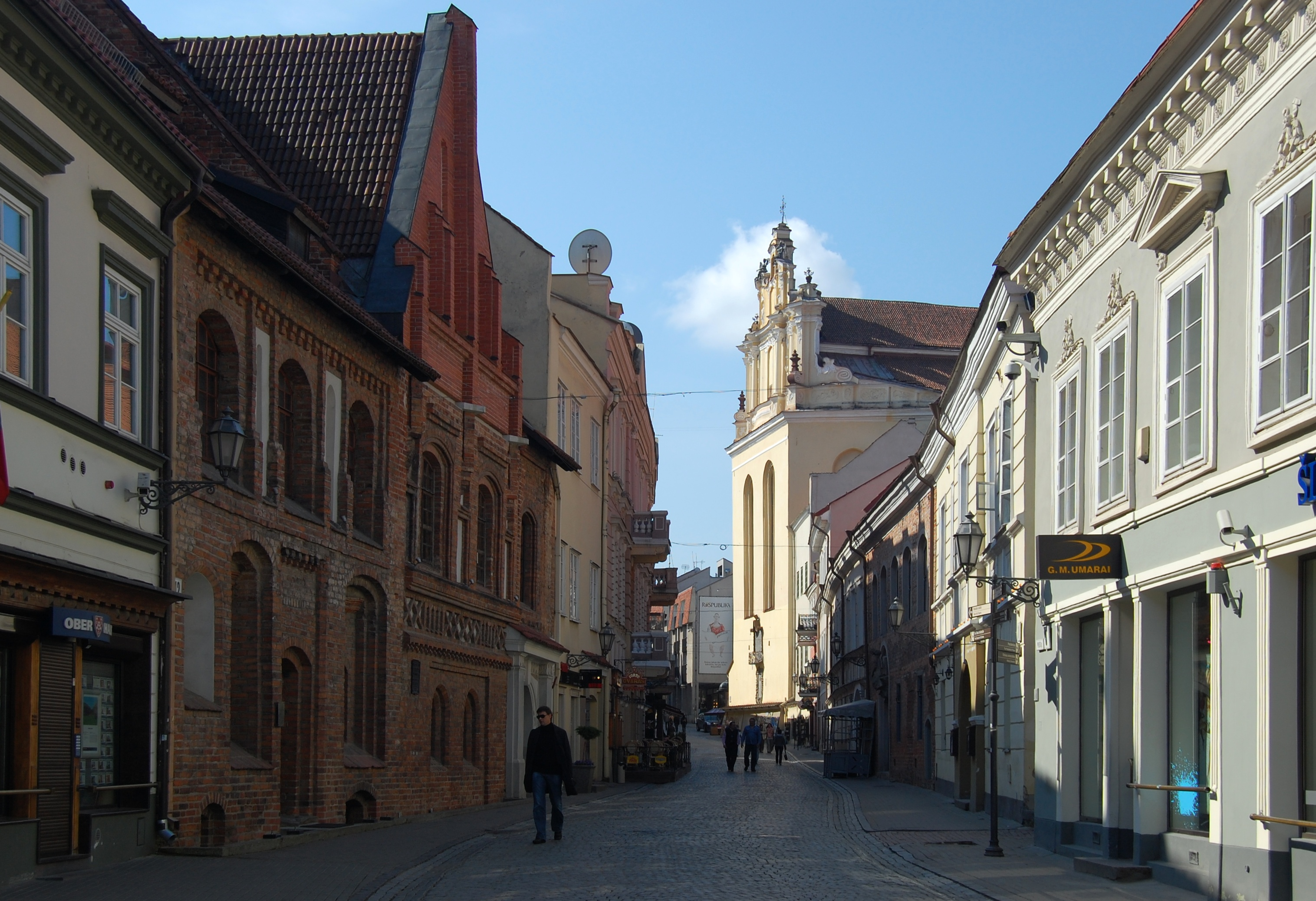 Pilies Street, Vilnius, Lithania.